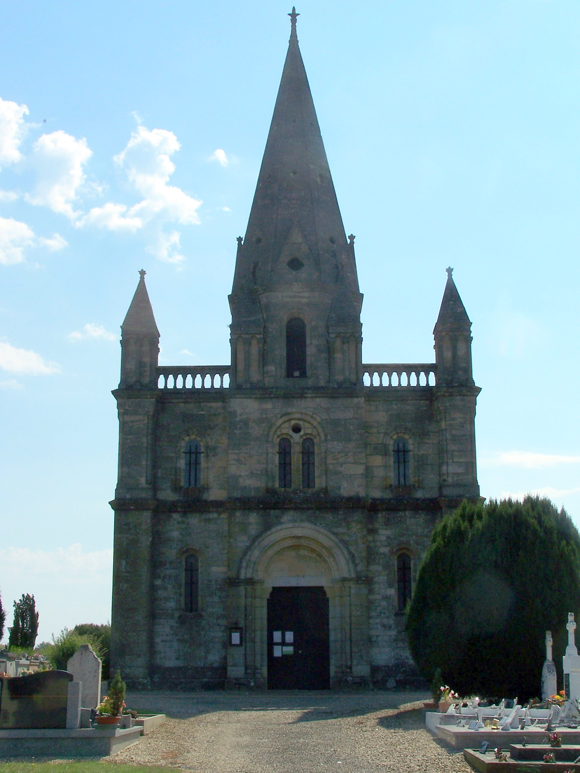 Church of Mazères (Gironde, France)